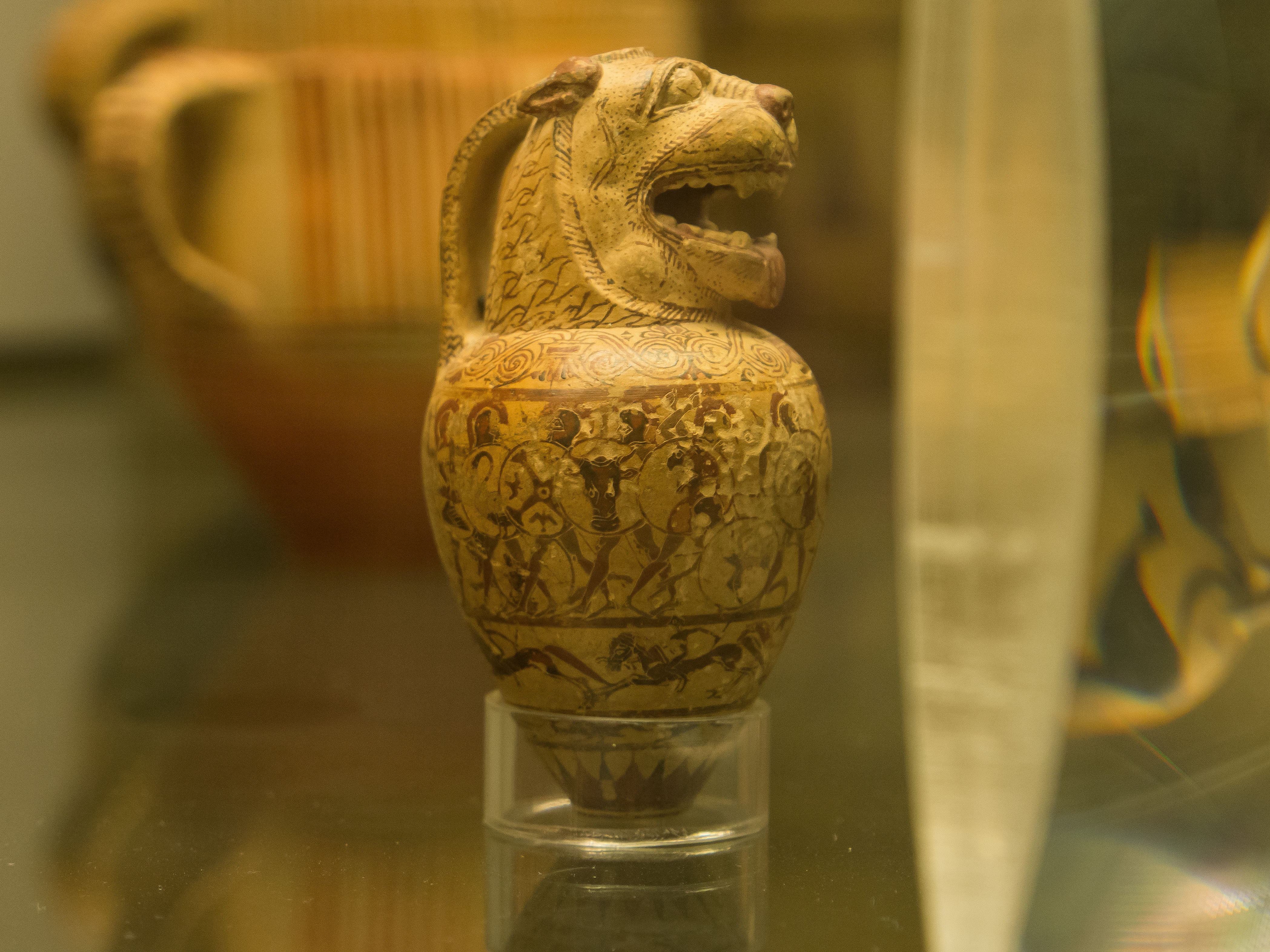 The Macmillan Aryballos: a proto-Corinthian aryballos with an upper part in the form of a lion's head. The body is decorated with scenes of seventeen warriors in combat, a hare hunt, and a horse race. The vase is attributed to the Chigi Painter. c.640 BC. Height: 6.9 cm; Width: 3.9 cm. GR 1889,0418.1